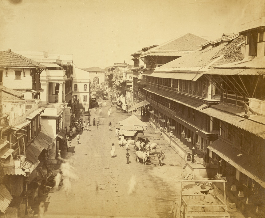 Photograph of a street scene in Baroda (now Vadodara) from an 'Album of portraits and views in Baroda' taken by an unknown photographer in c. 1880. Vadodara, on the banks of the river Vishwamitri, was capital of the princely state of Baroda from 1734 to1947 under the Gaekwads who transformed the city into a progressive centre of education, culture and industry.